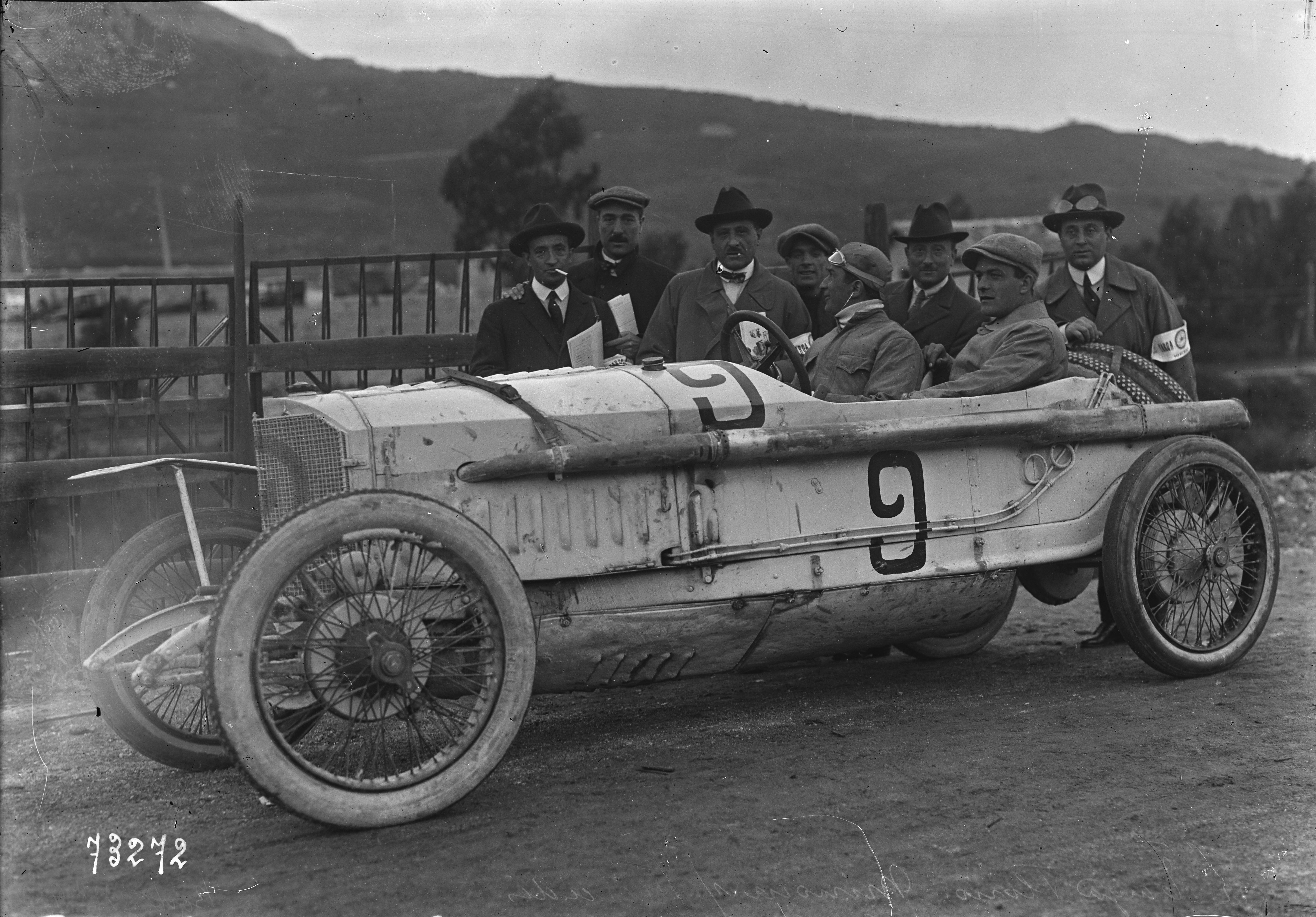 Ferdinando Minoia in his Mercedes at the 1922 Targa Florio.